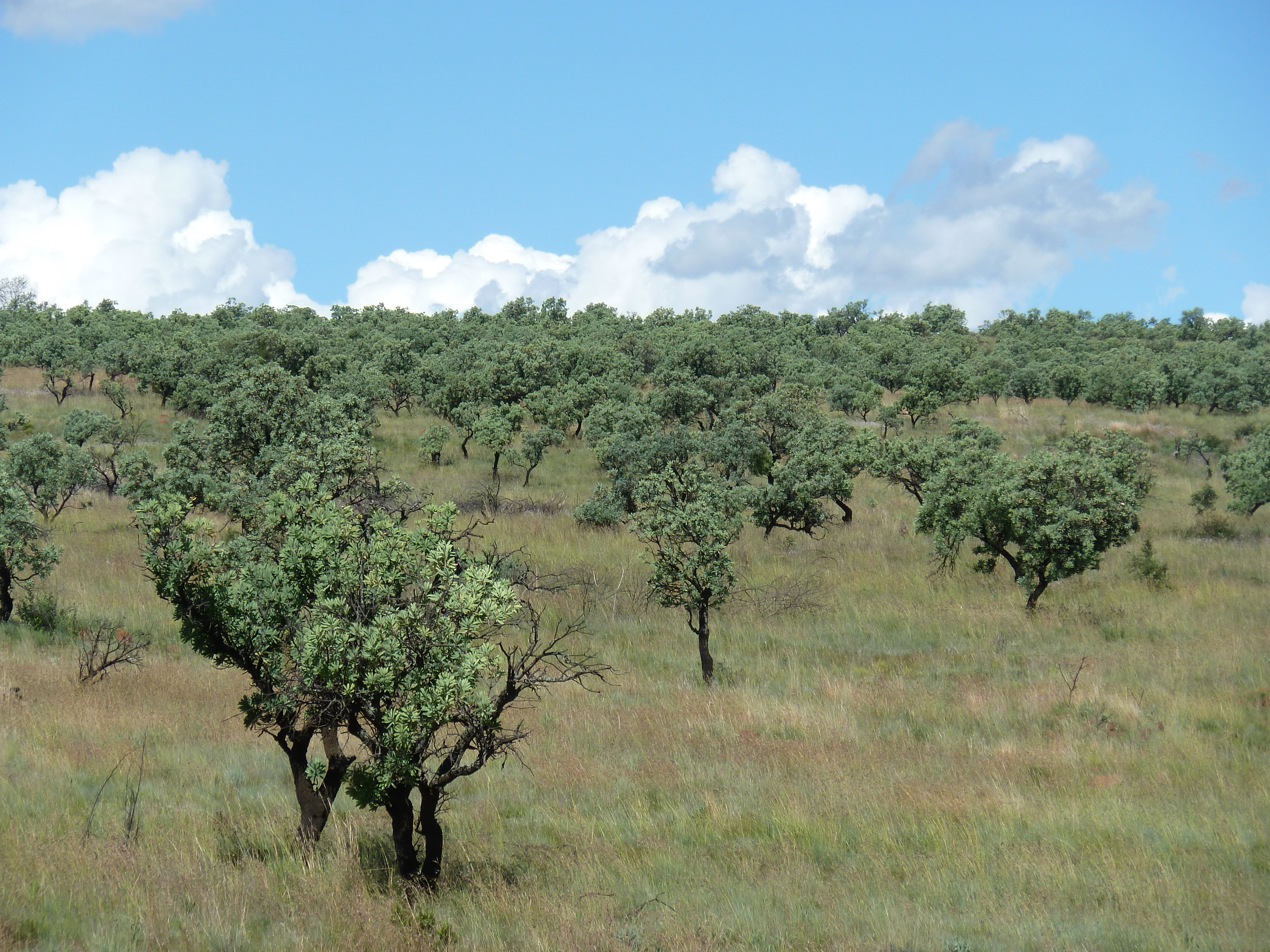 Sugarbushes against the hillside of Paardeplaats 177 IQ, Krugersdorp